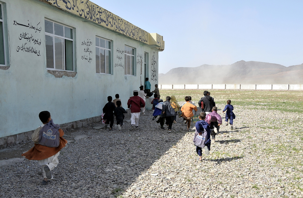 Children run back to school as the bell rings in a playground in Changan village Photo by Vinko Pernek of Slovenia.